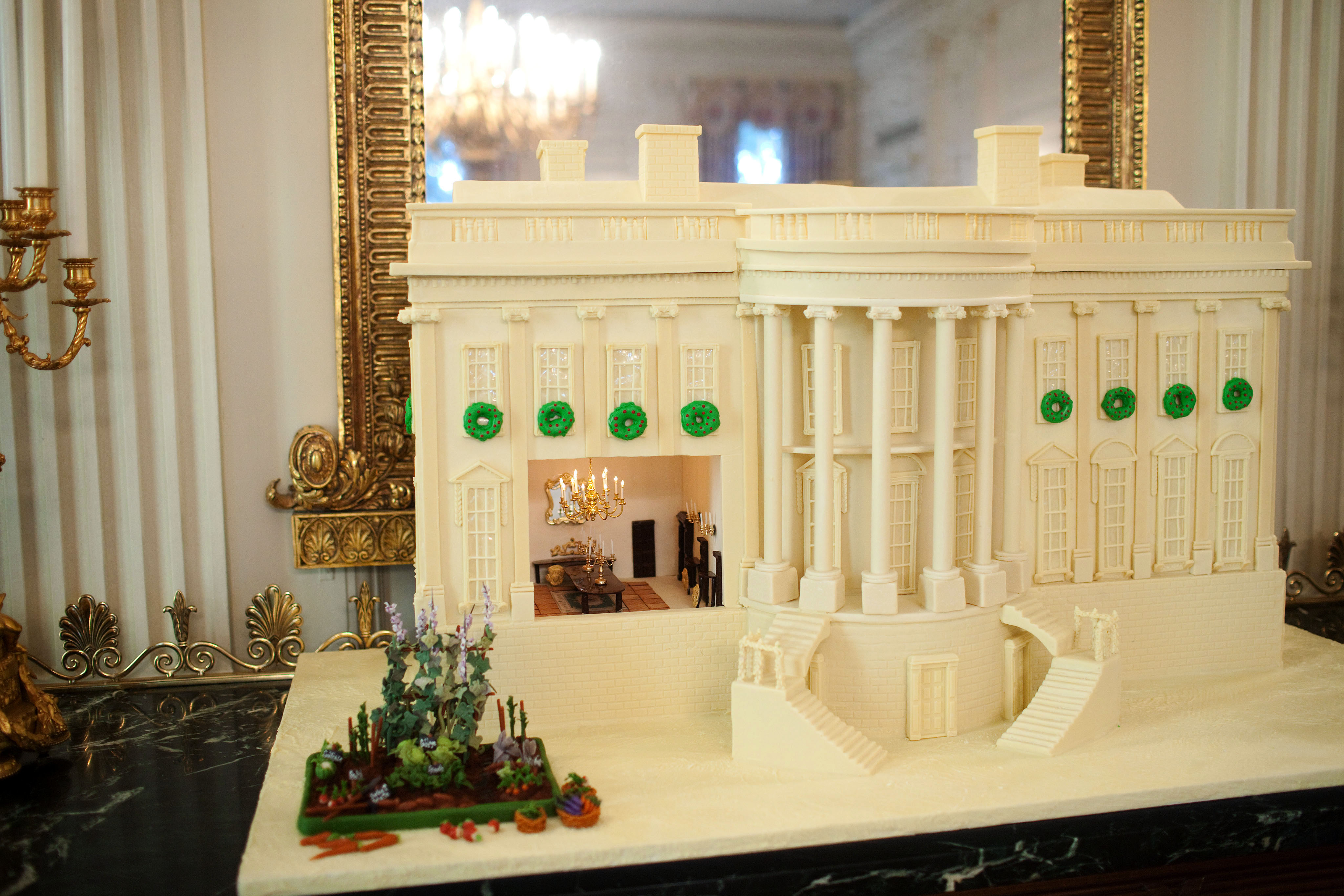 A replica of the White House, made of gingerbread and white chocolate, is displayed in the State Dining Room of the White House, Dec. 1, 2009. (Official White House Photo by Samantha Appleton)